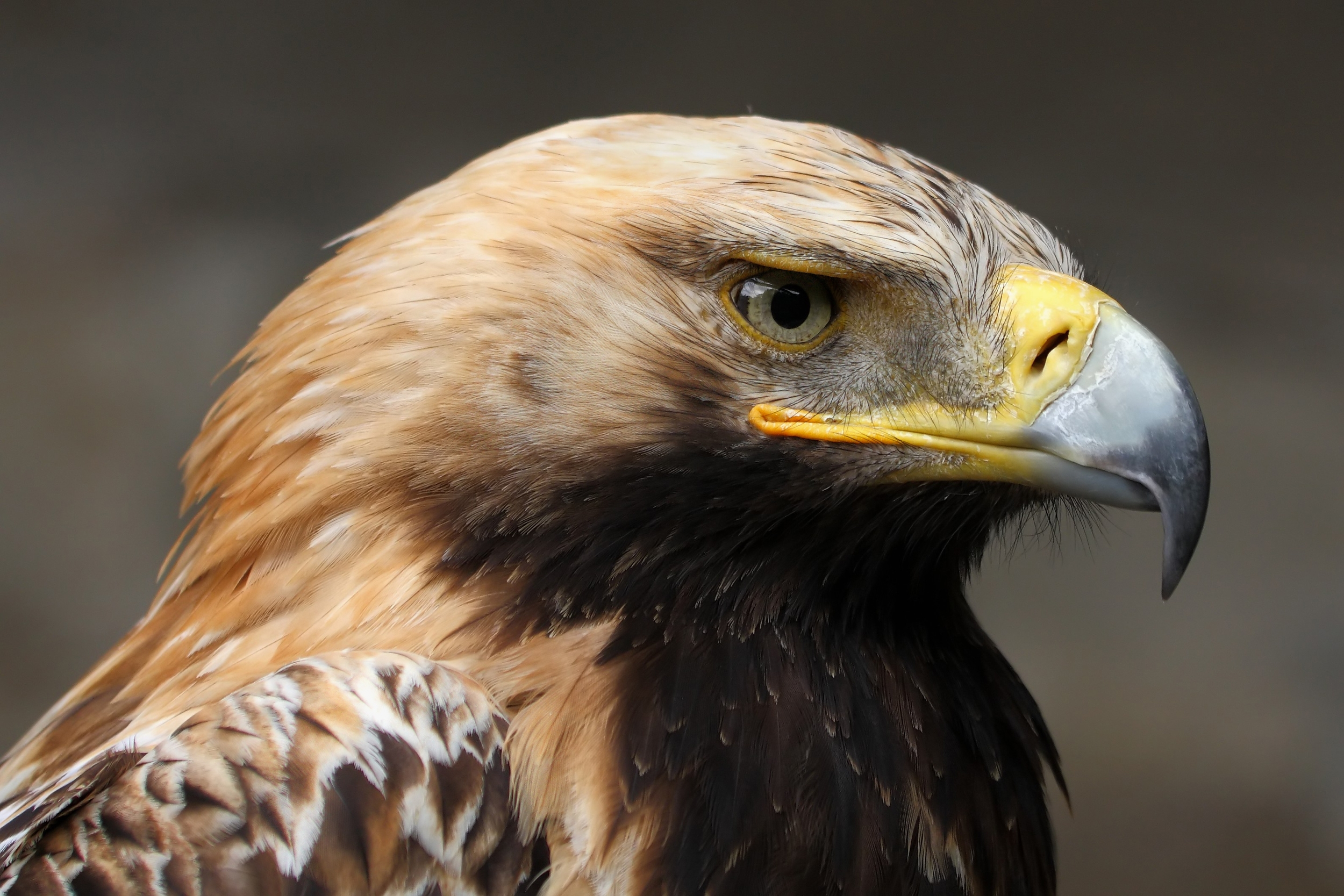 An Eastern Imperial Eagle.